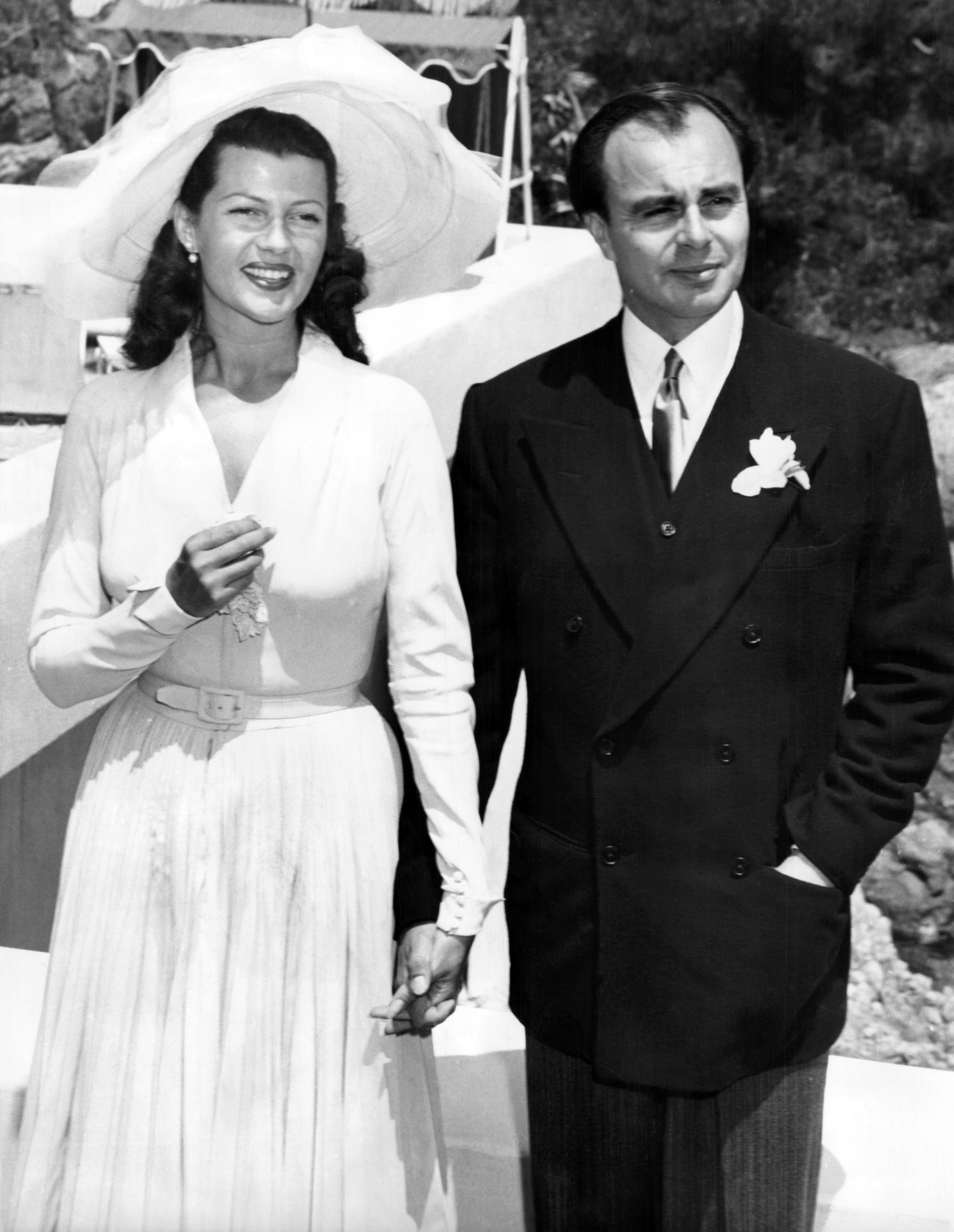 Photograph of Rita Hayworth and Aly Khan at their wedding reception at Chateau de L'Horizon in Vallauris Snipe on reverse side reads in part as follows: RITA HAYWORTH AND ALI [sic] KHAN WED CANNES, FRANCE: Prince Ali Khan and his brife, actress Rita Hayworth, stroll hand-in-hand in the garden of Ali's sumptuous Château de l'Horizon at champagne reception which followed their double ring ceremony in Vallauris, near Cannes.